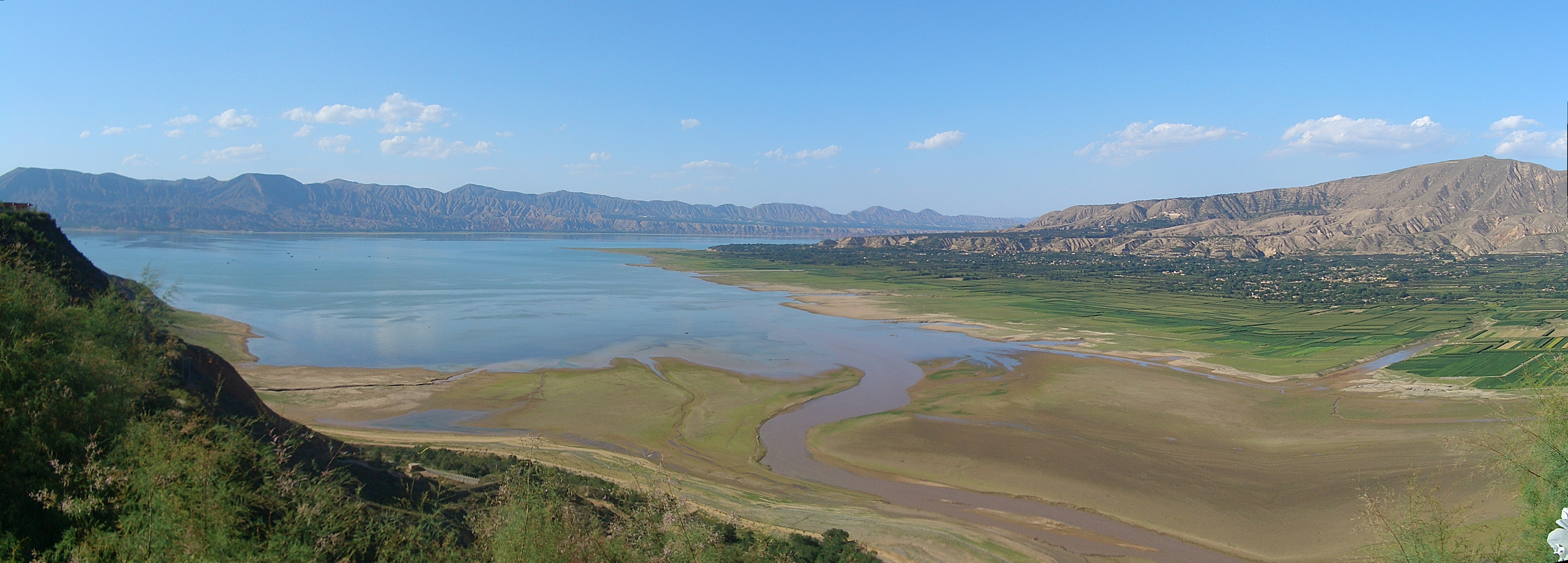 The Daxia River falling into the Liujiaxia Reservoir, seen from the edge of the loess plateau in NE Linxia County, facing NE and E.. The near side of the river is in Linxia County (Hexi Township), the far side (right), in Dongxiang County (Hetan Town), the far side of the reservoir (left), in Yongjing County